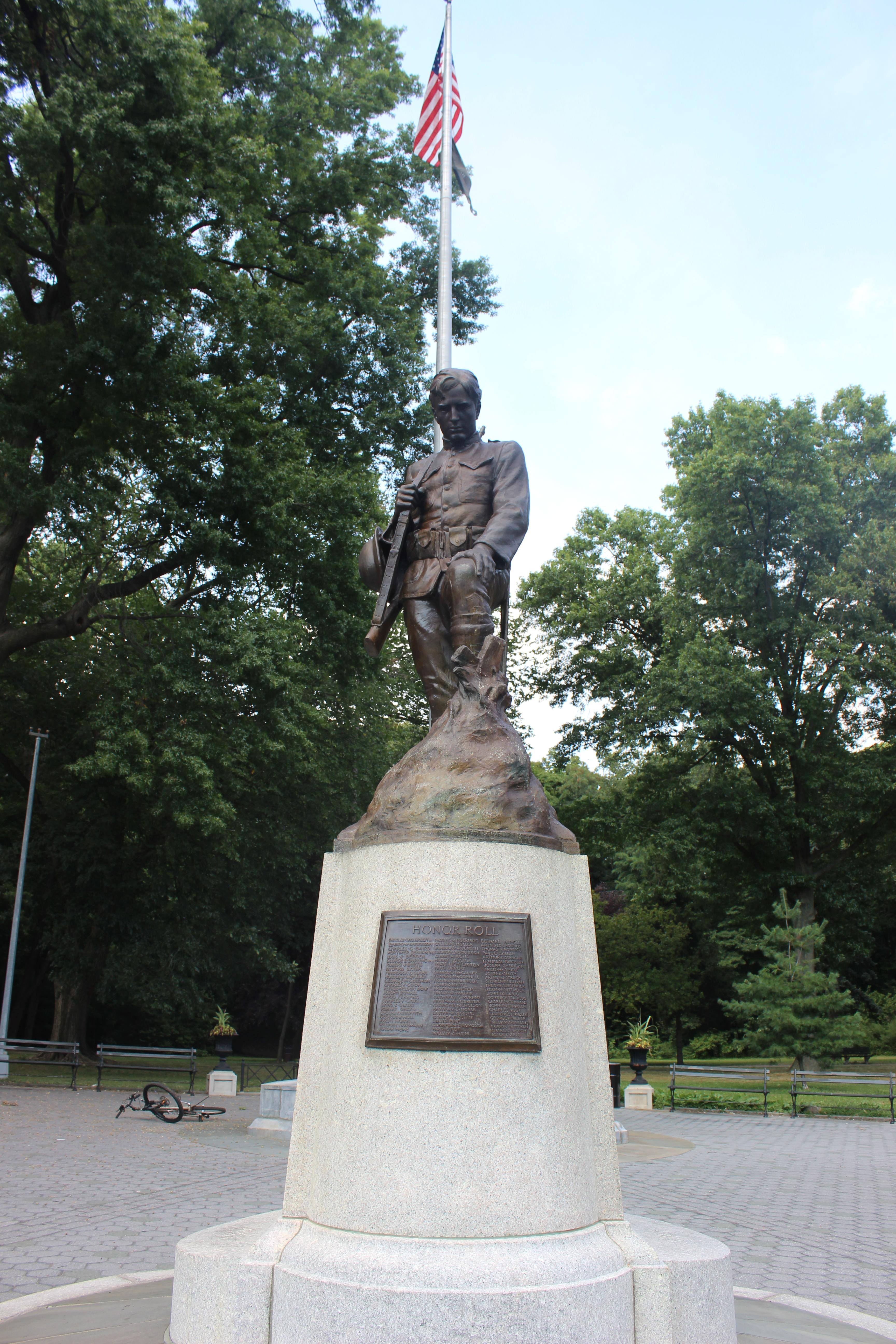 My Buddys Statue. Forest Park. Queens New York